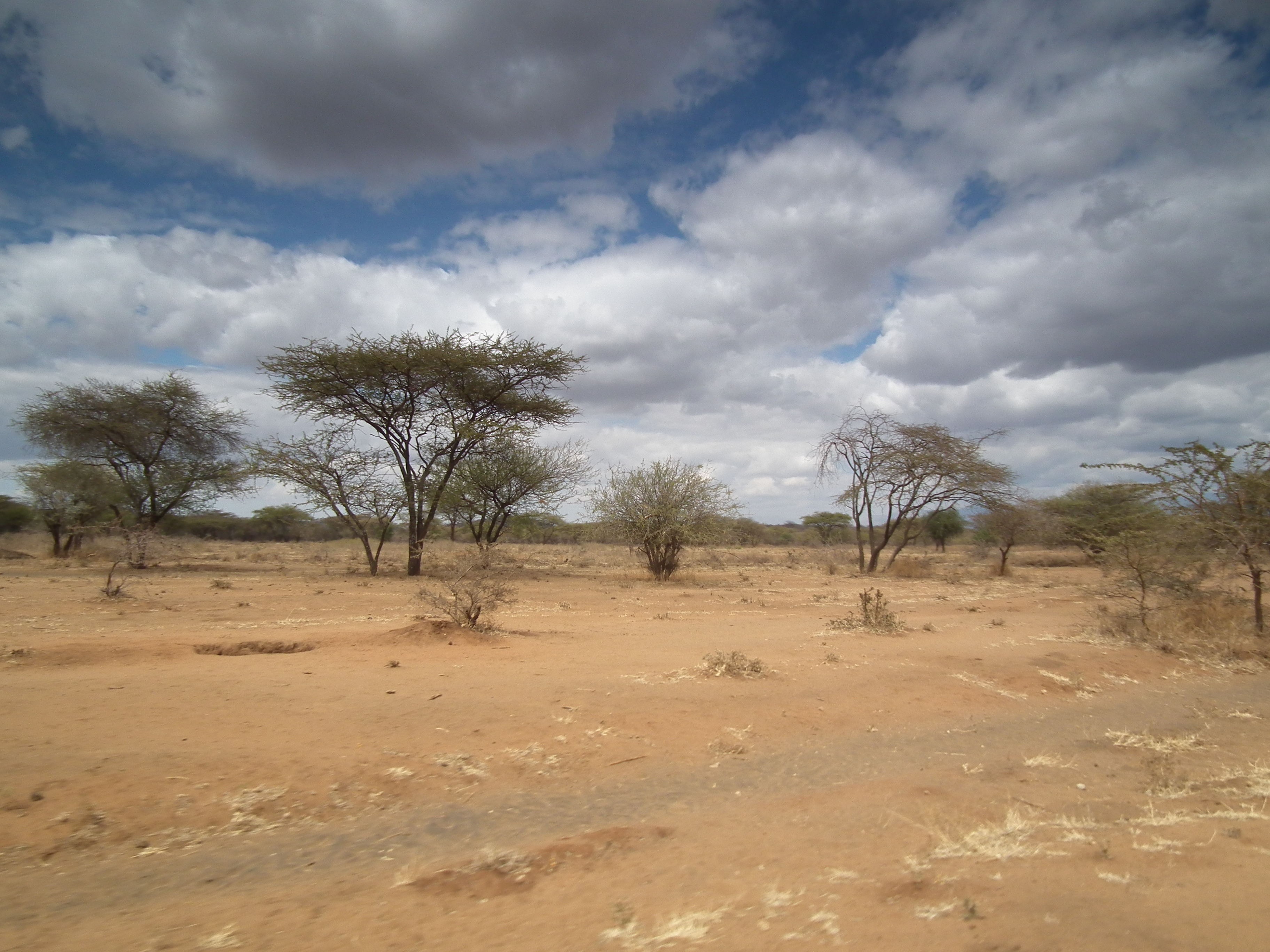 Flora of Tanzania. picture taken in Tanzania